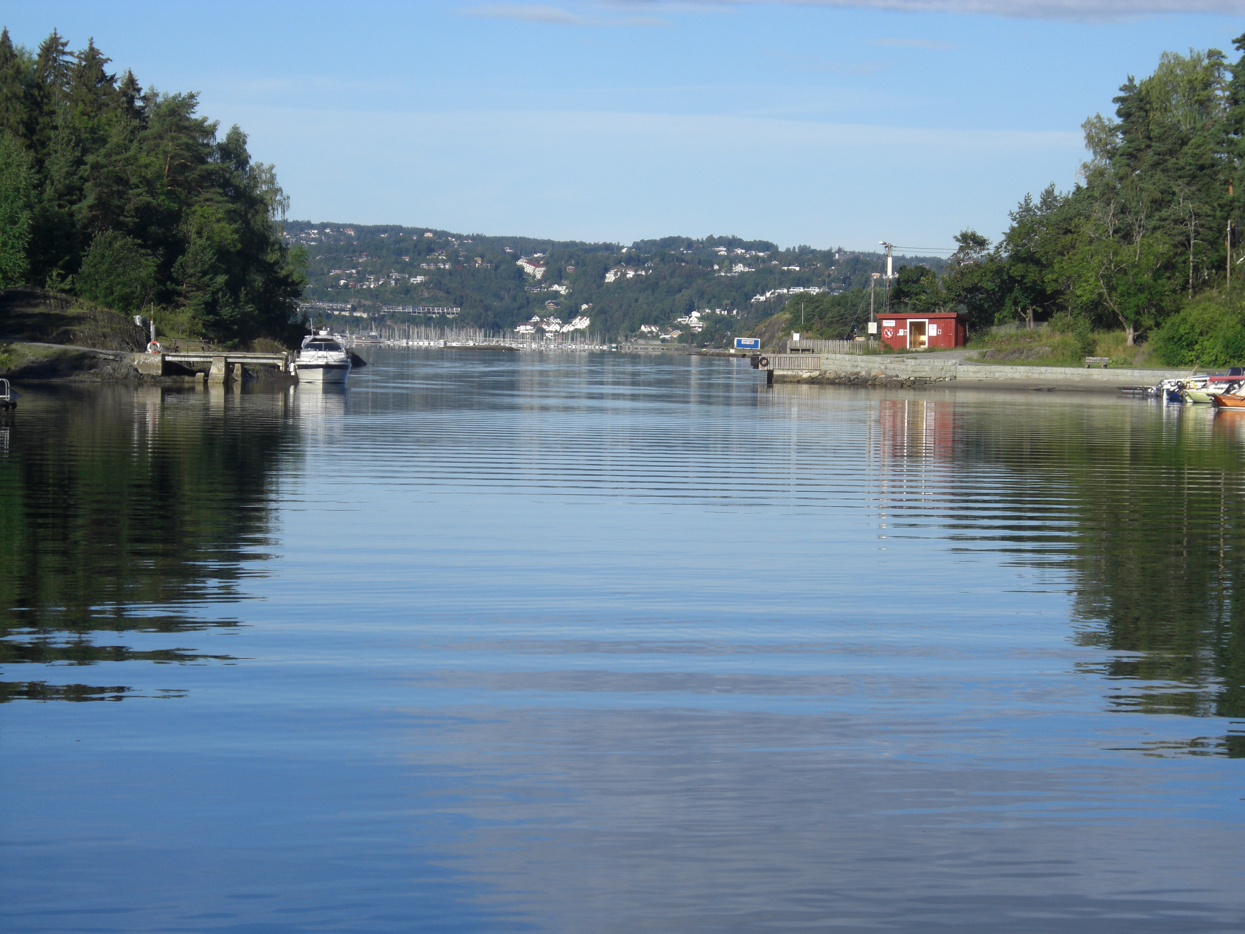 Middagsbukta, Asker